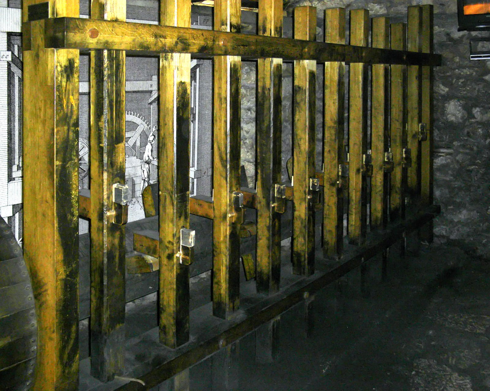 Historic Powder Mill at the Water Power Museum in Dimitsana in Greece.